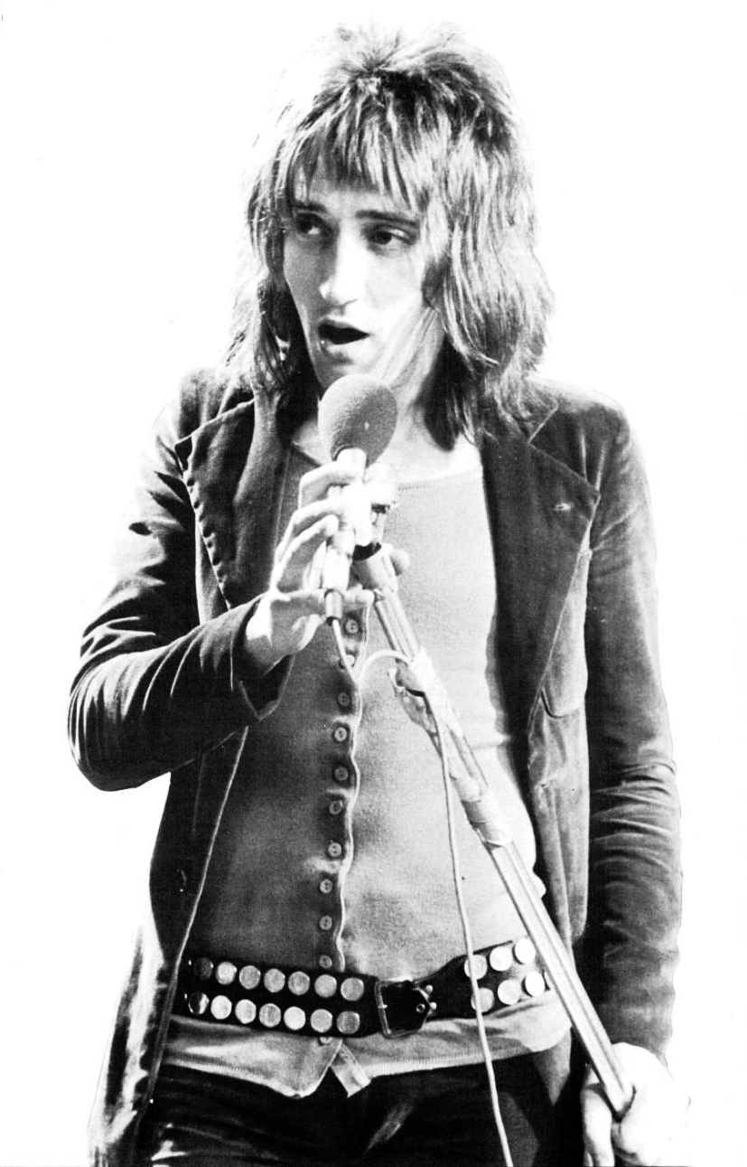 Trade ad for Rod Stewart's album Every Picture Tells A History. To better adapt it to his respective Wikipedia article, the ad was cropped and cleaned in a graphics editing program. The original can be viewed at the source below.